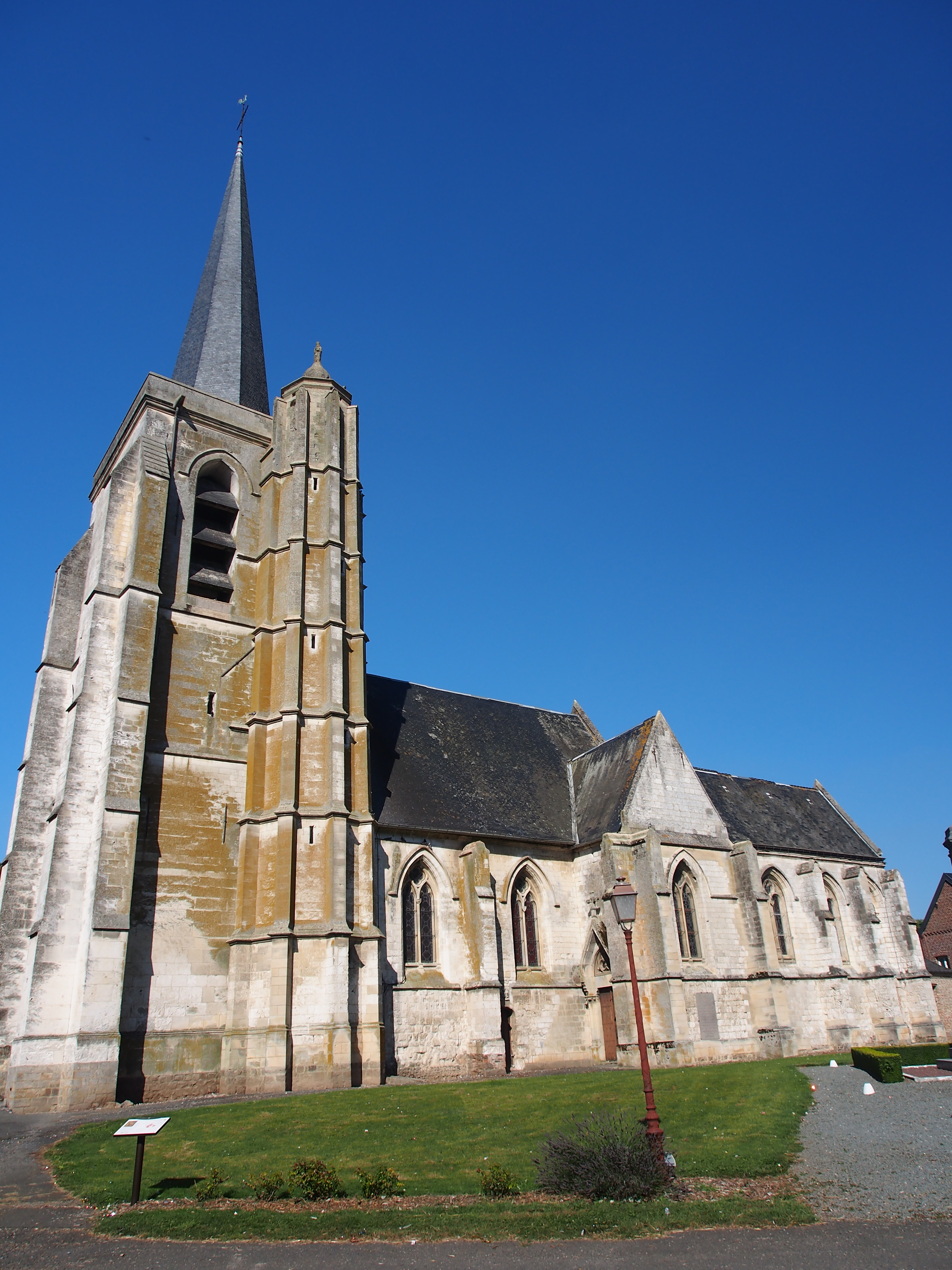 Notre-Dame-de-l'Assomption church in Ailly-le-Haut-Clocher, Somme department, France.